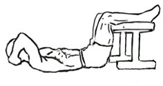 an exercise of abs